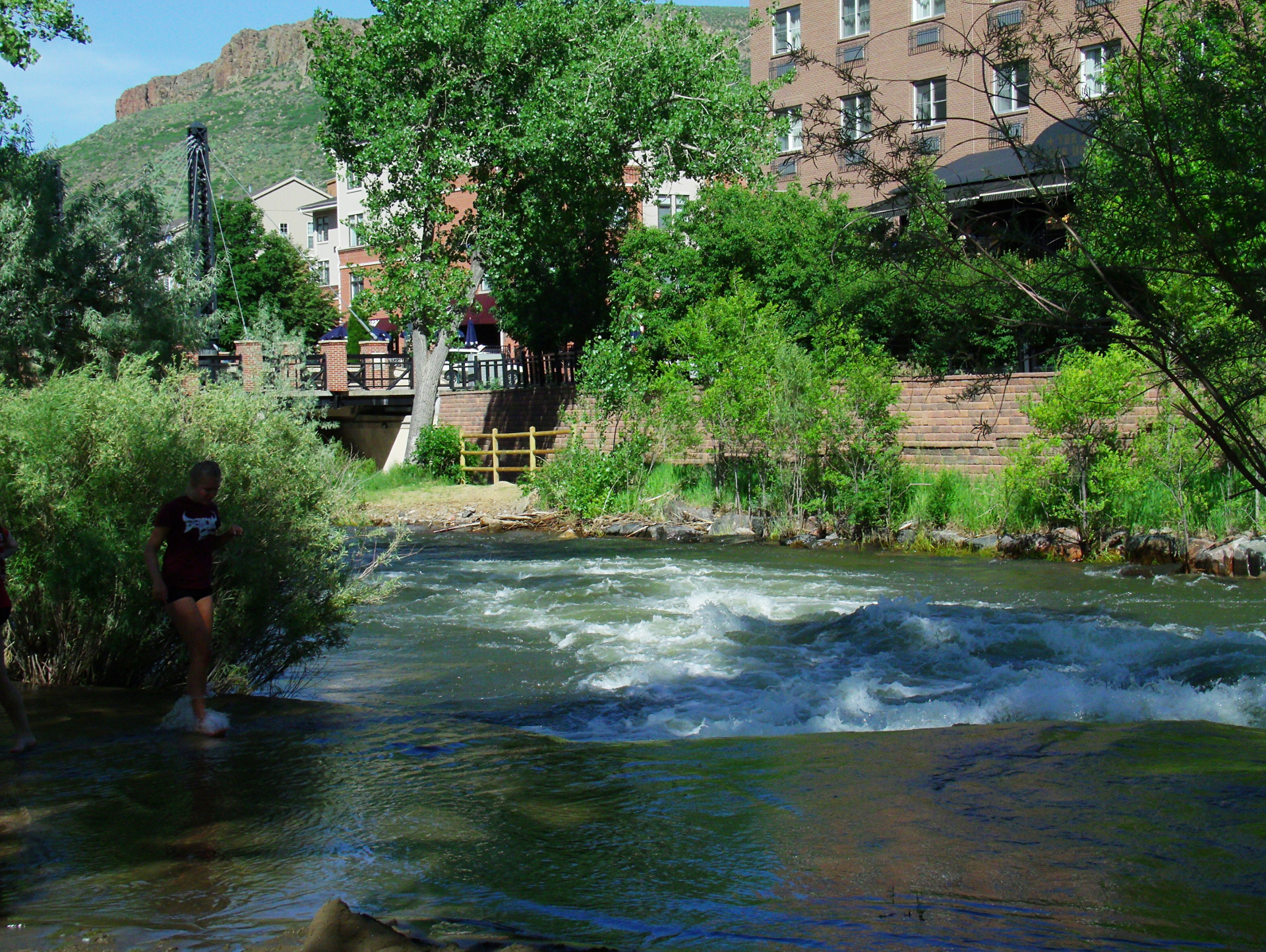 Clear Creek near Washington Street Bridge, in Golden, Colorado, United States.